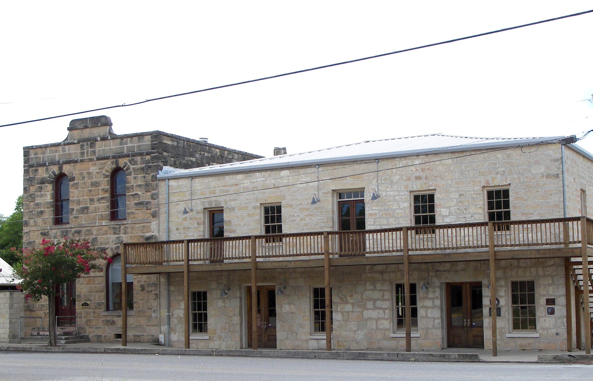 The Woolls Building located at 318 San Antonio, Center Point, Texas, United States. The building was listed on the National Register of Historic Places on April 26, 2002.